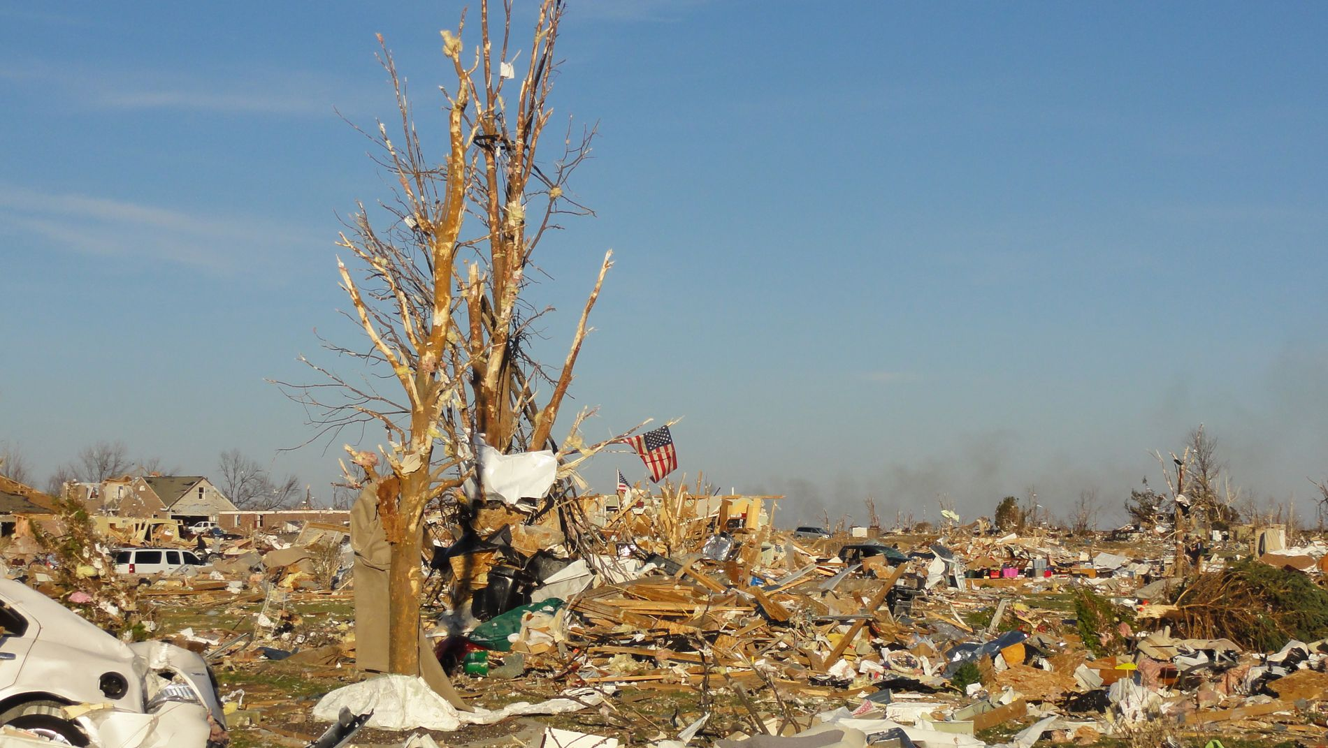 Tornado damage in Washington, Illinois following a 190 mph EF-4 tornado on November 17, 2013.